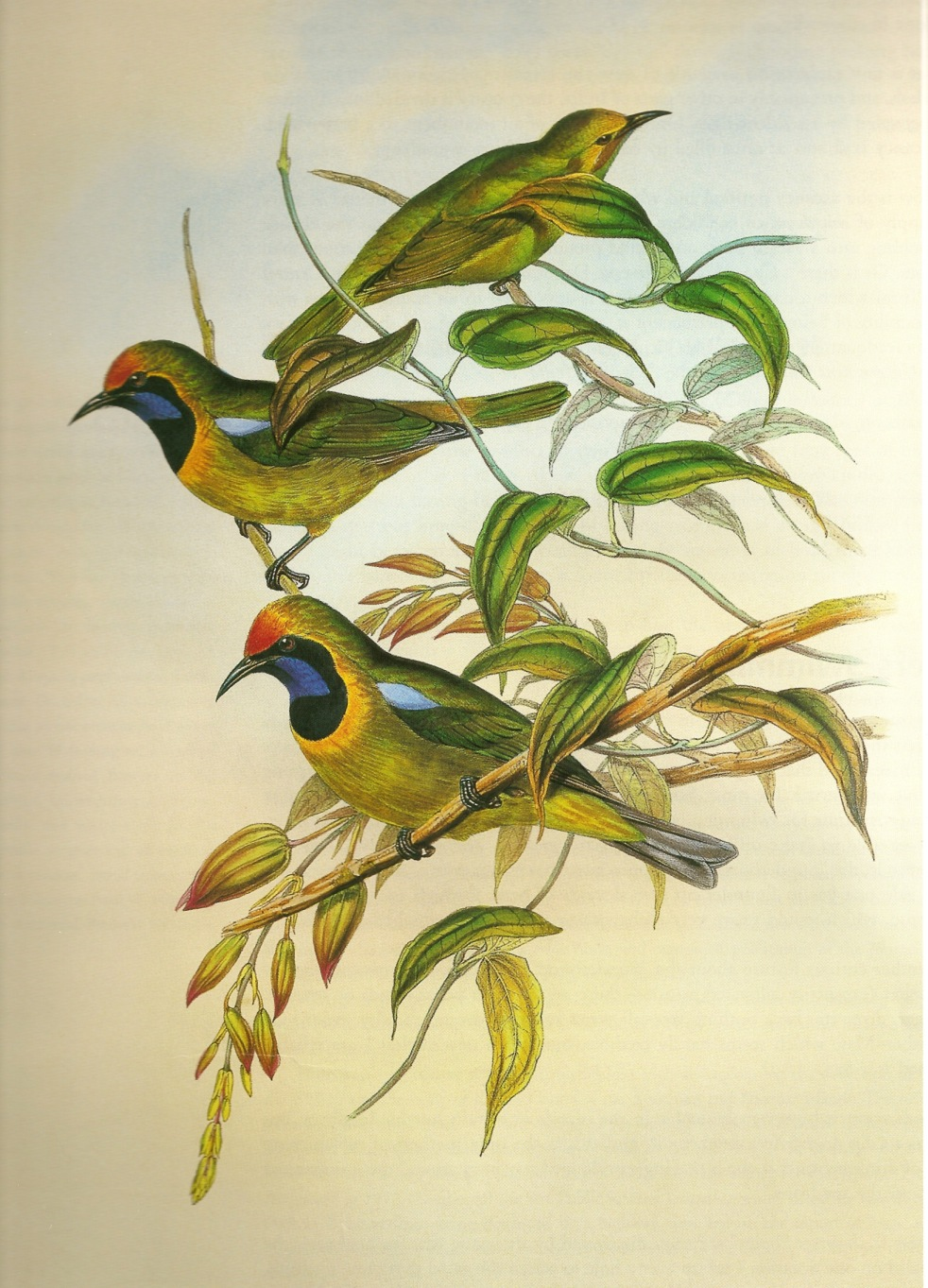 Golden-fronted Leafbird (Gold-fronted Chloropsis') Chloropsis aurifrons (Temminck)